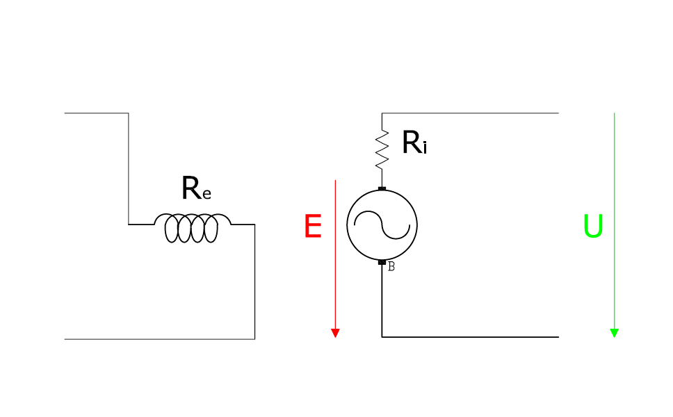 Mathematical model Direct Current machine